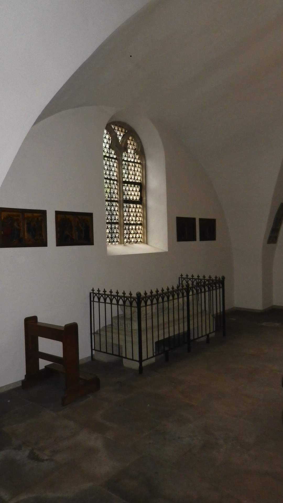 Blick auf die Grabstätte der Erphokapelle (Südseite)